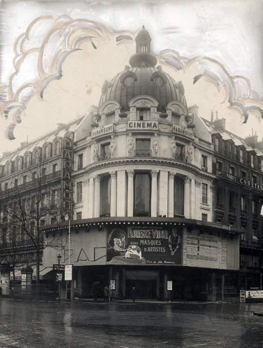 Paramount Opéra cinema (now Gaumont Opéra), Paris, 1927. Featuring the French version of William A. Wellman's You Never Know Women (1926).